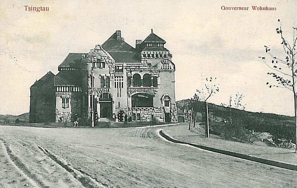 historical view of Qingdao